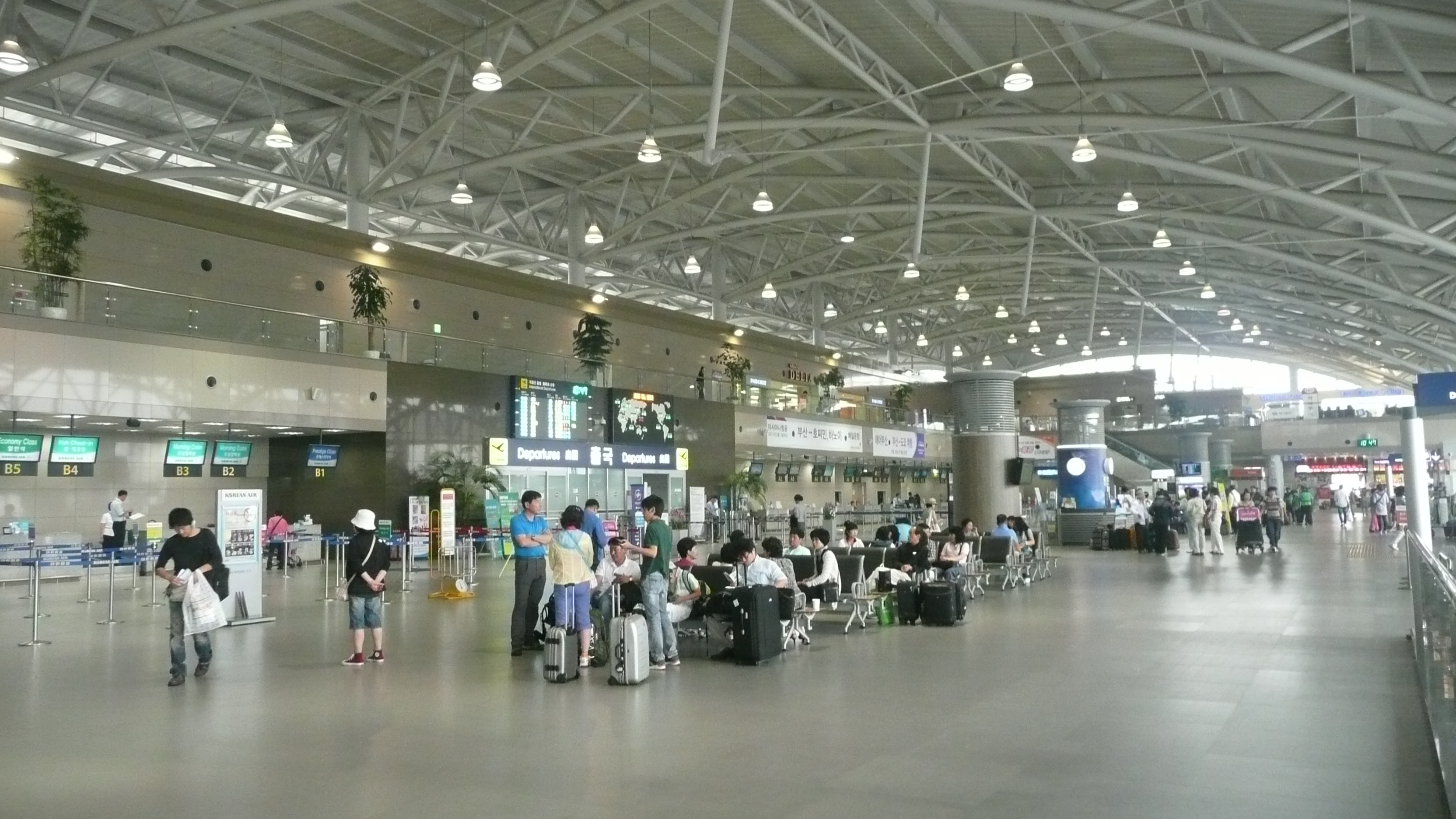 Gimhae International Airport, Busan, South Korea